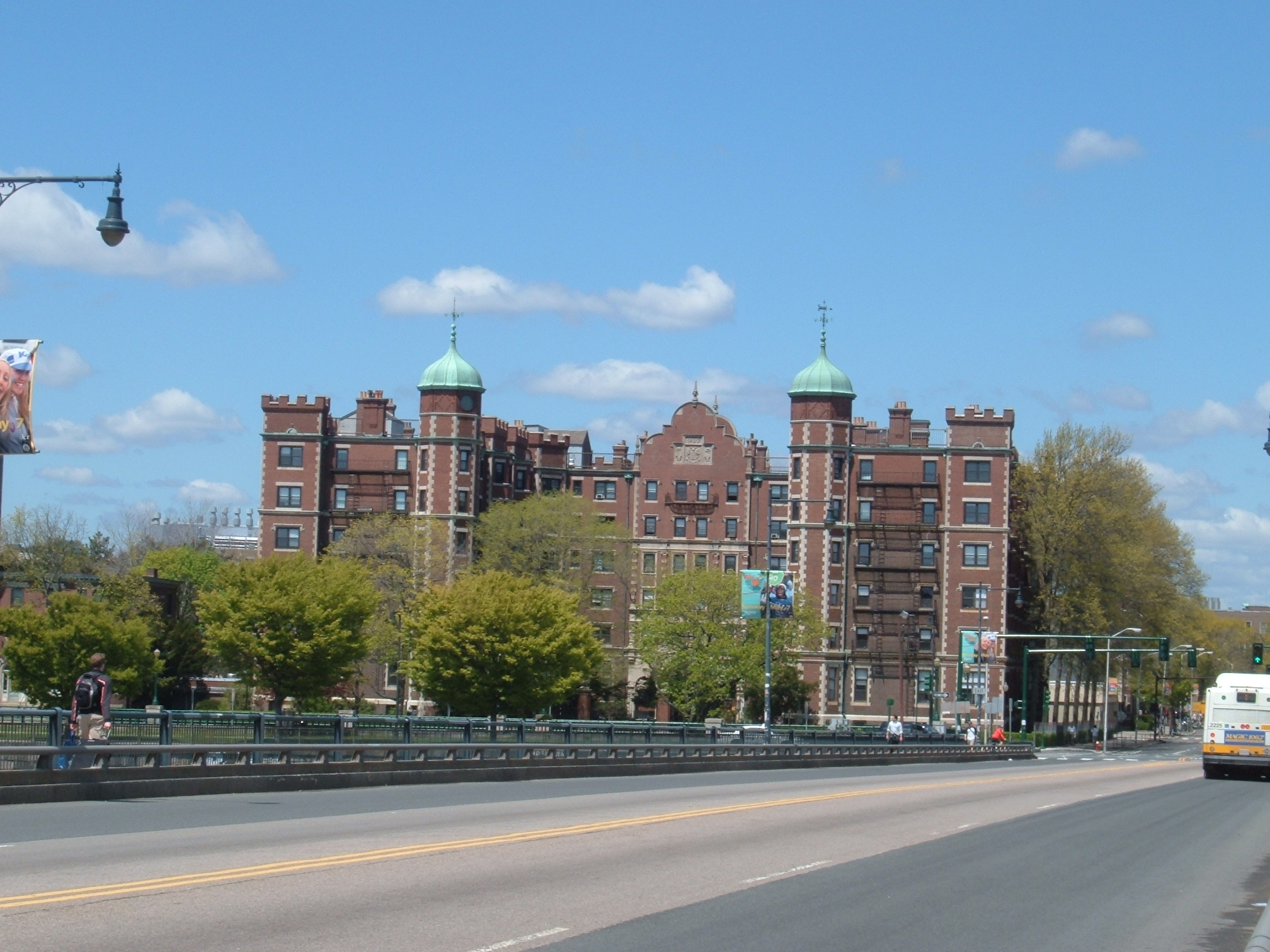 Maseeh Hall, formerly Ashdown House, (building W1) at the Massachusetts Institute of Technology, taken from the Harvard Bridge. (my DSCF0876)